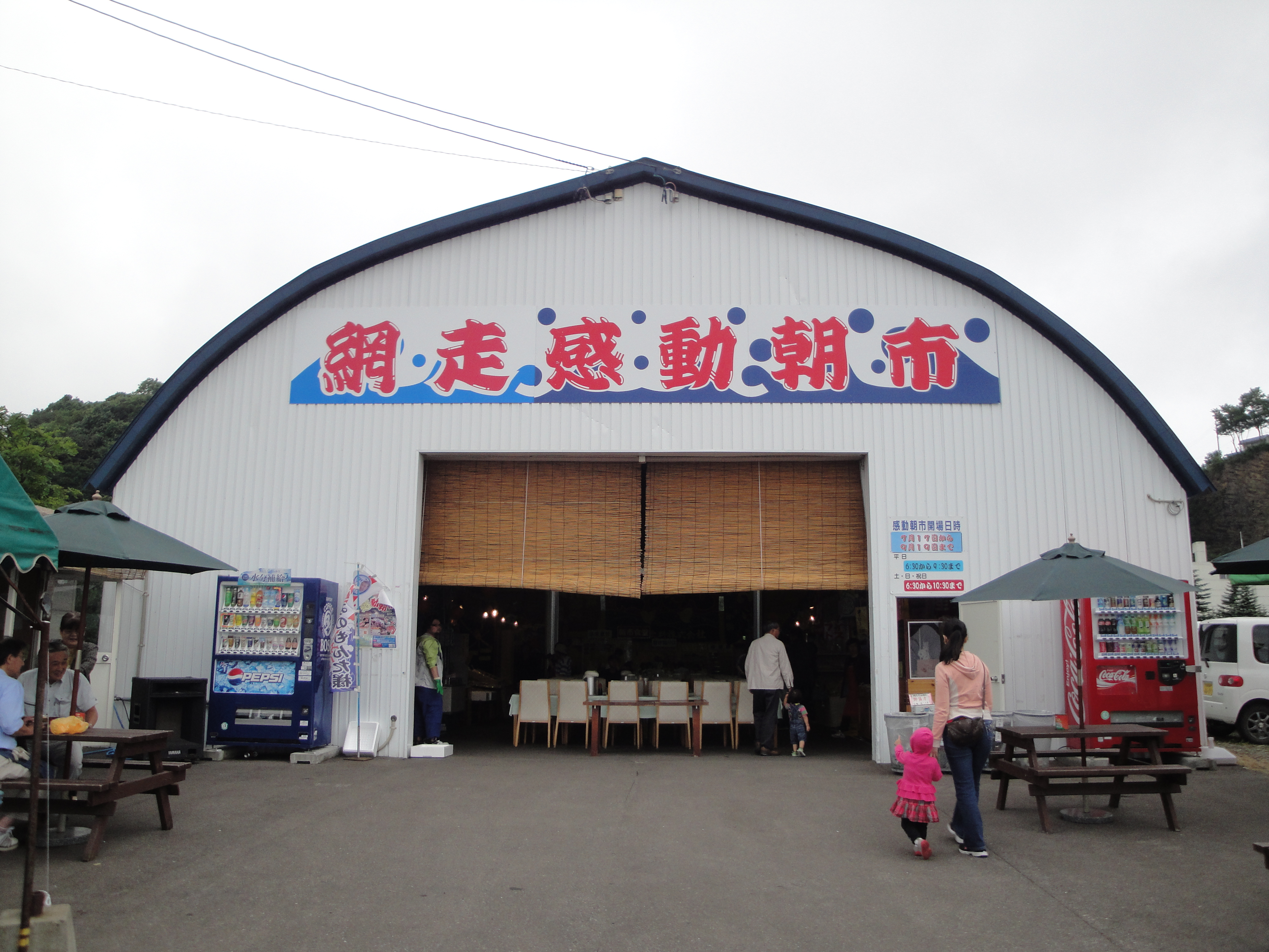 Site of Abashiri Wonder Morning Market in Abashiri, Hokkaido, Japan. 中文（台灣）: 網走感動朝市會場外觀